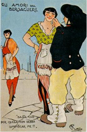 Satiric picture about Italian interest on Valona detrimental to Trieste before to enter in the WWI